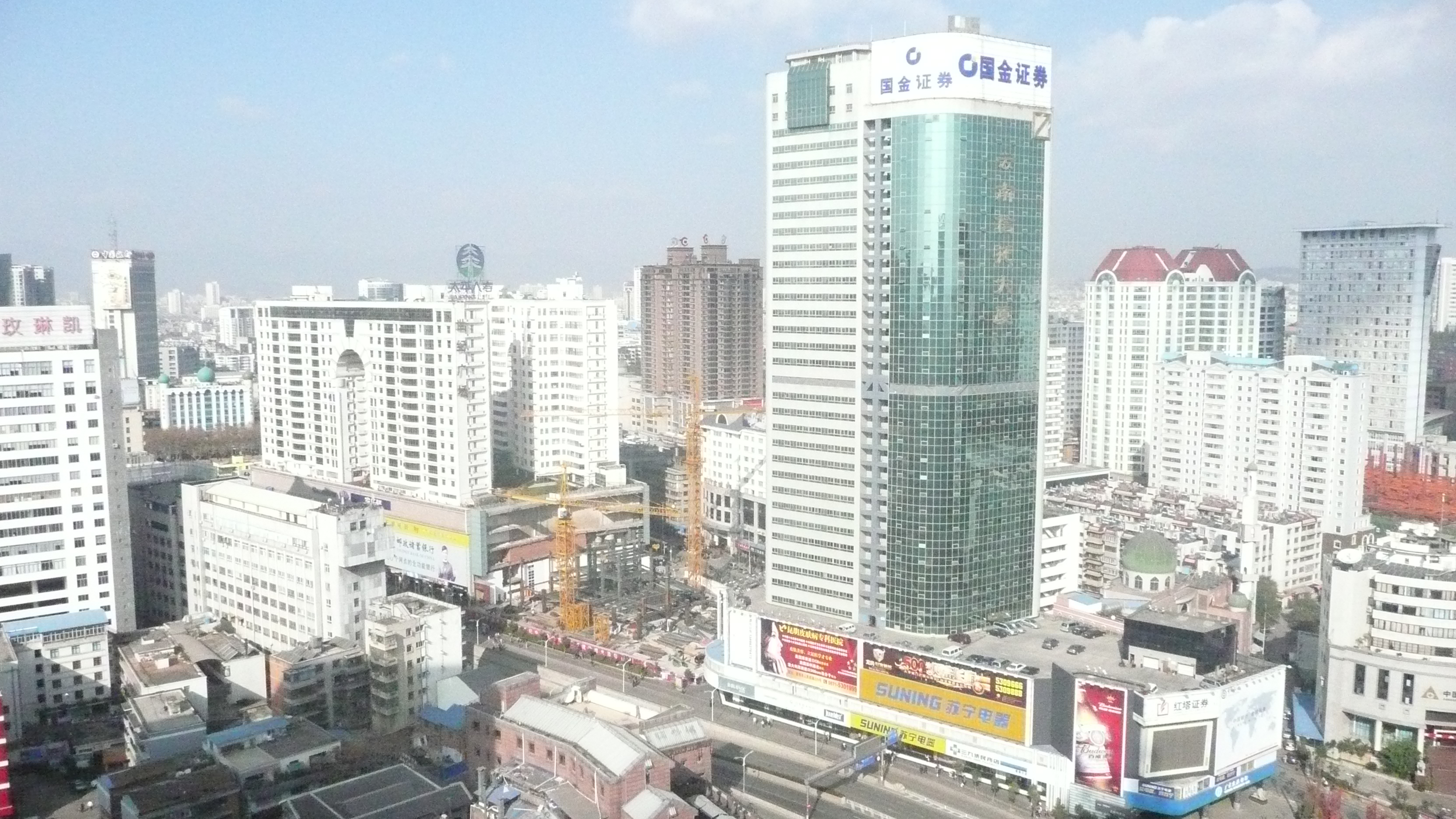 Kunming - Capital of the Chinese province Yunnan